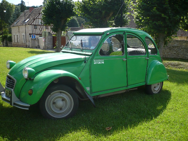 This is my own car, it is green "bamboo"